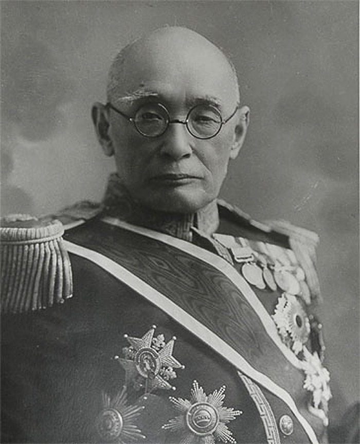 Japanese senior statesman Count Nobuaki Makino (晩年の牧野伸顕伯爵, 1861–1949) in his later years. Count Makino was among the targets during the February 26 Incident (二・二六事件).